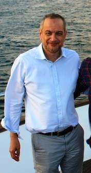 Yasin al-Qadi